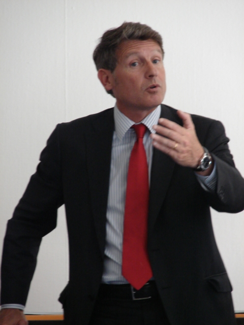 picture of Vincent Peillon